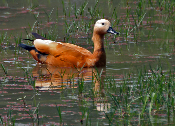 Ruddy Shelduck Tadorna ferruginea at Keoladeo National Park, Bharatpur, Rajasthan, India.